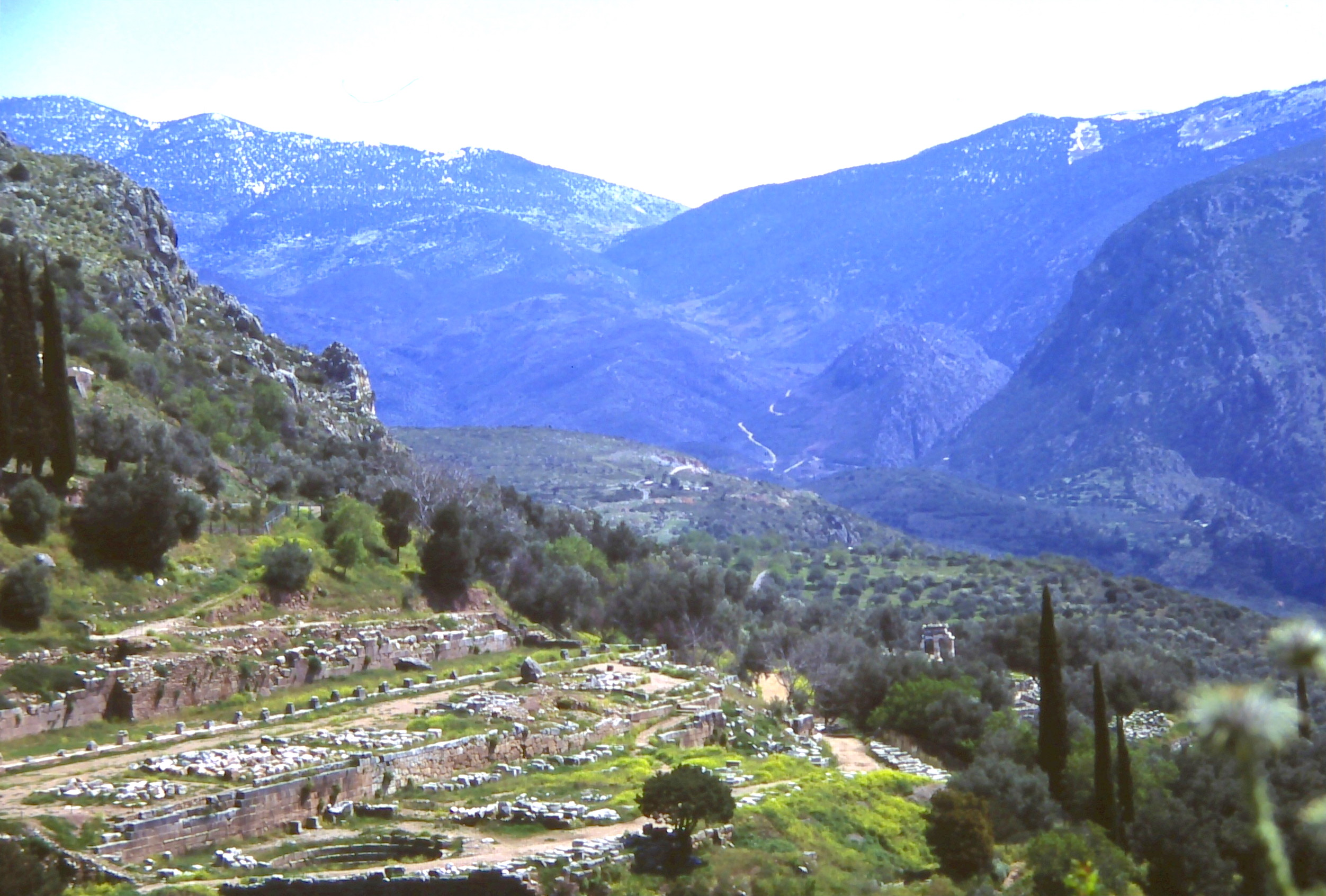 The stadium setting